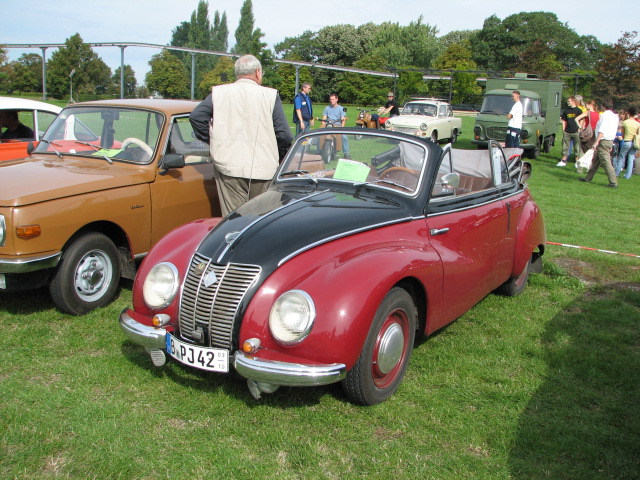 IFA F9